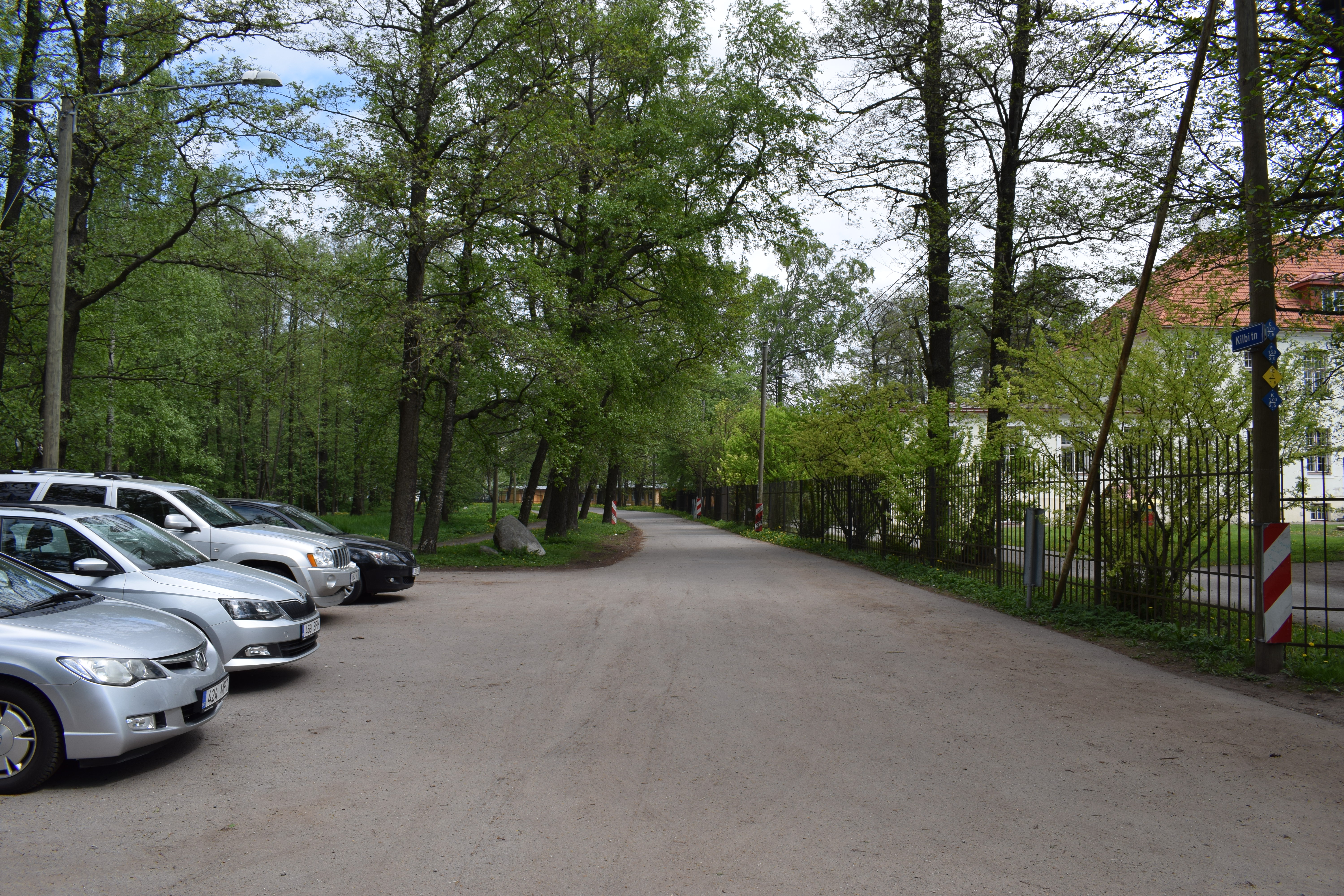 Kilbi street